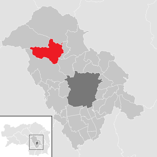 District Graz-Umgebung, Styria